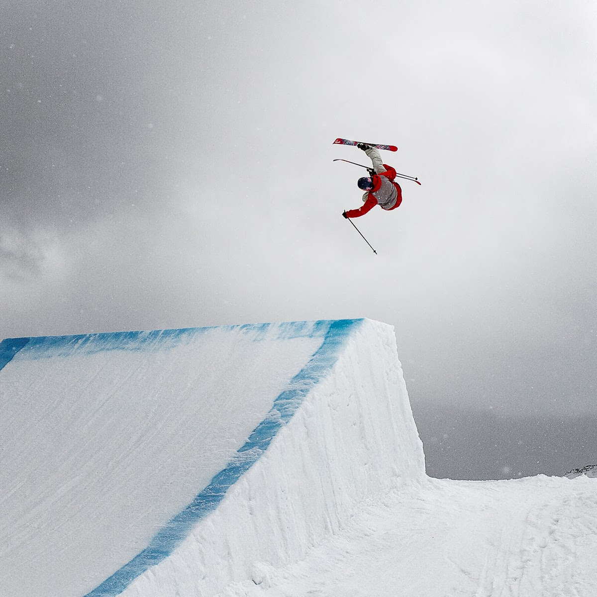 Jesper Tjäder competing during the Swedish Slopestyle Tour Finals in Åre, Sweden in 2013.